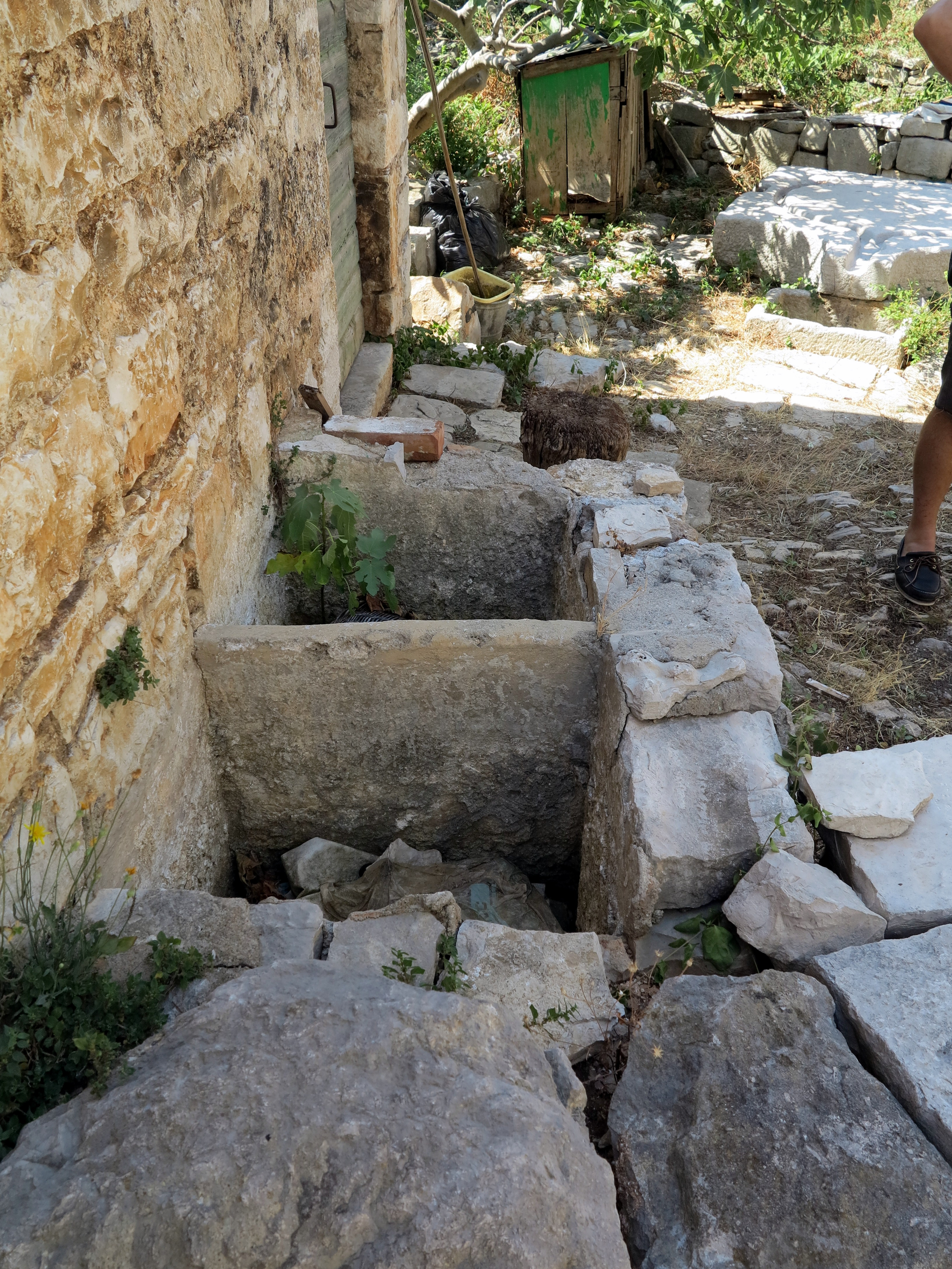 Pits for slaking lime in old houses in Grohote on the island Šolta / Croatia / Adriatic Sea.